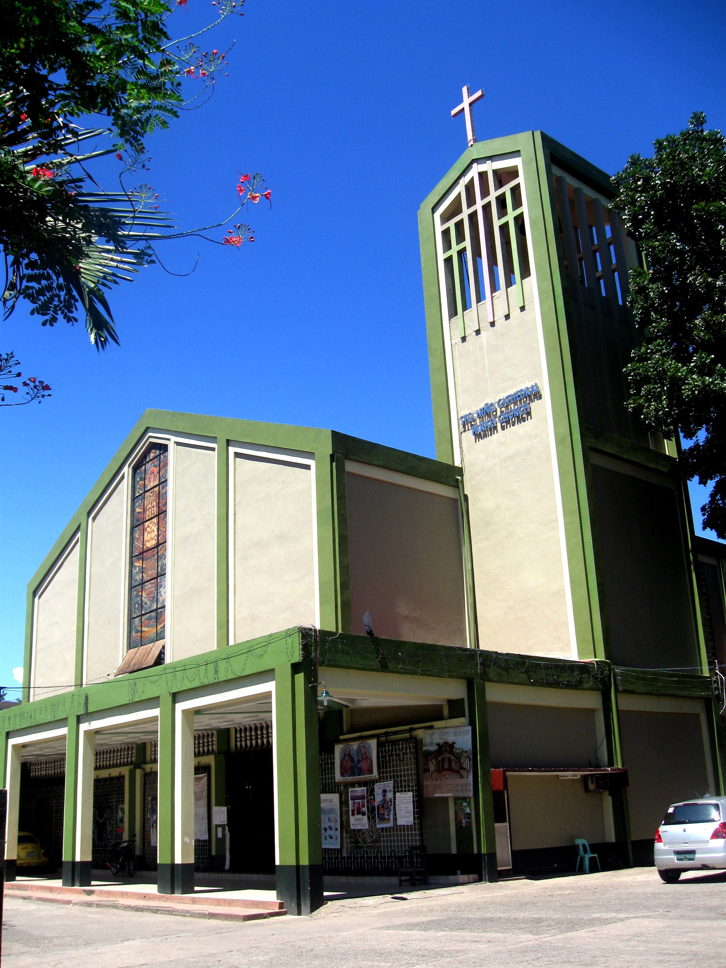 Sto. Nino Cathedral in Pagadian City